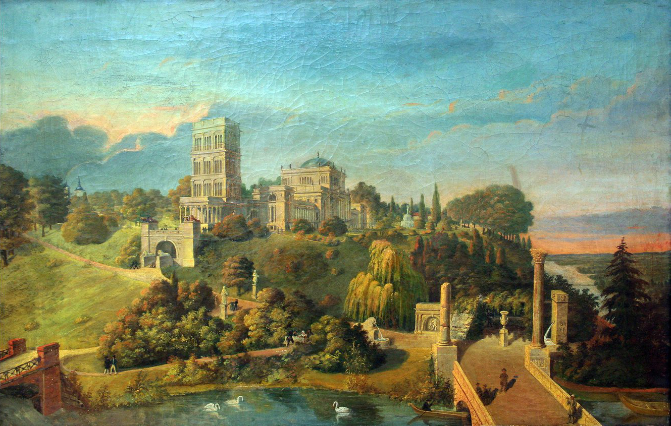 Homiel, A. Idzkoŭski